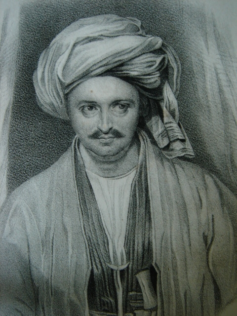 Sir Alexander Burnes (1805–1841), Scottish traveller and explorer, in the Costume of Bokharra. Originally published in Cabool: Being a Personal Narrative of a Journey To, and Residence in That City, 1836-38 by Alexander Burnes. Published by John Murray (London), 1842.